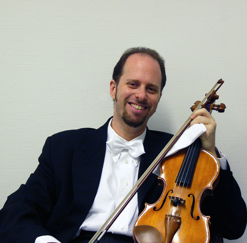 Portrait of Violinlayer Yaakov Rubinstein